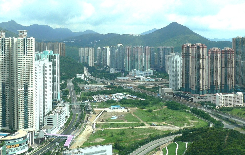 View of Tseung Kwan O on a sunny day